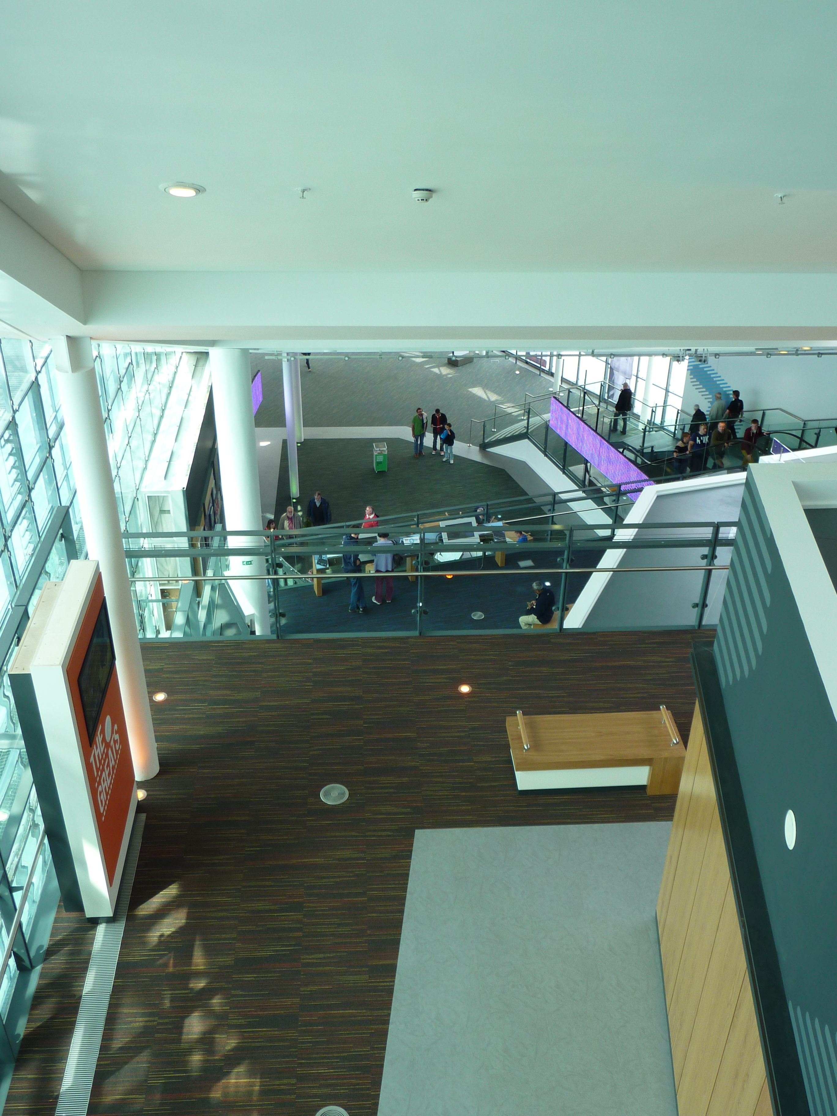 National Football Museum, Manchester (looking down from the top floor) 12 July 2012